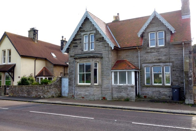 Rock Cottage, Bamburgh - front of the house (built by Henry Pitt), where the Pitt family lived